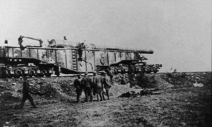 AWM caption : "France, c. 1945. A German K5 28cm railway gun in its travelling position. A total of twenty five guns of this type were produced by the end of the Second World War and they were used in France, Russia and the Italian theatres."